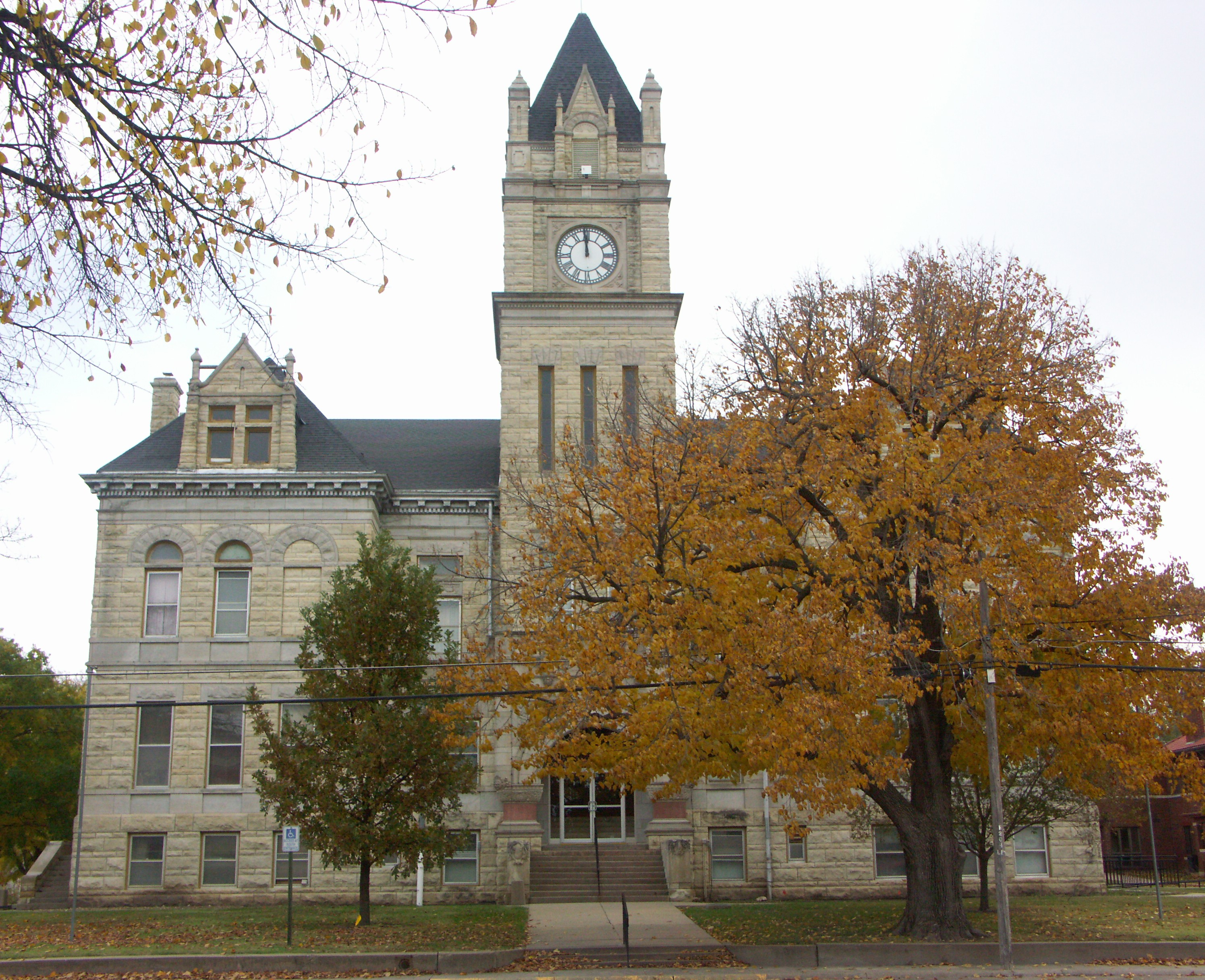 Marion County Court House, Marion, Kansas